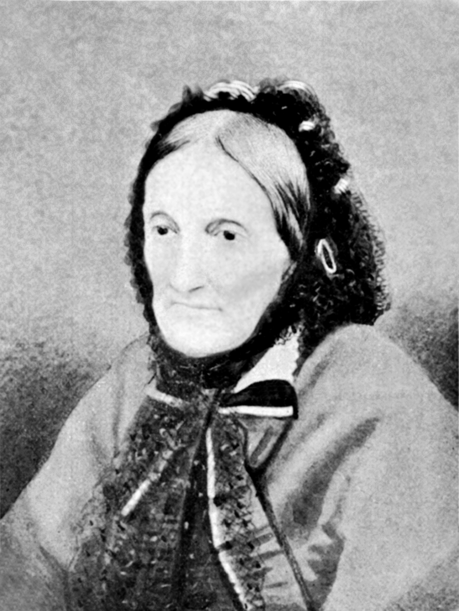 Mrs. Fanny Hinckley Thomas Gulick (April 16, 1798 – May 24, 1883), second wife of missionary to Hawaii Peter Johnson Gulick.